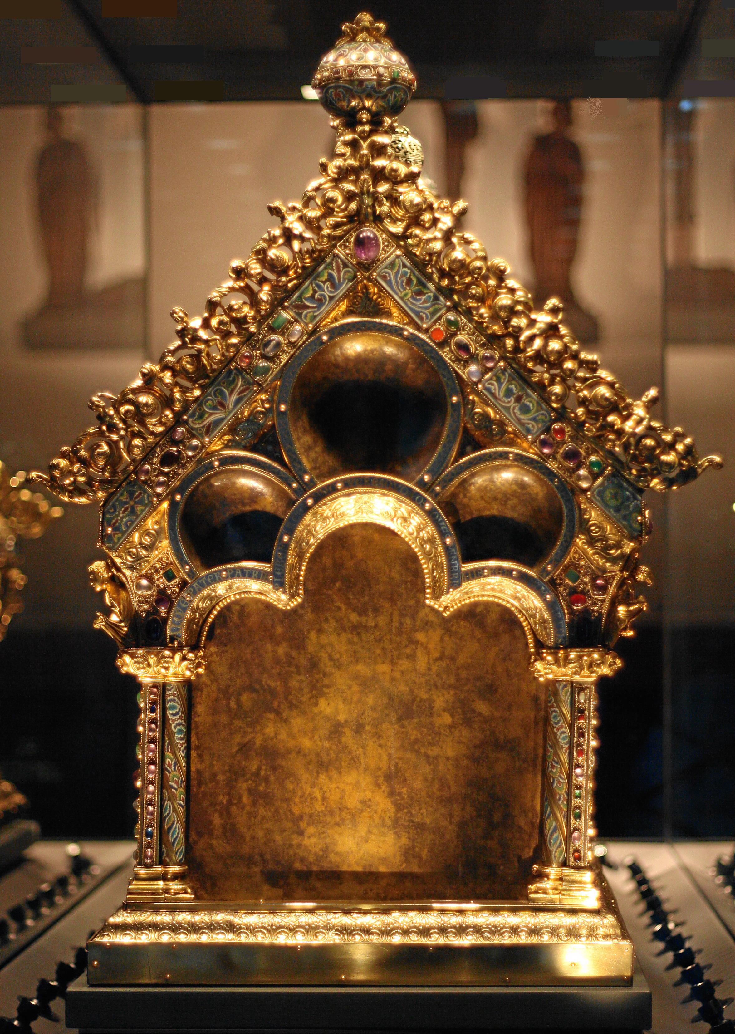 Siegburg, Germany. Church of Michaelsberg abby, shrine of Saint Anno mady by Nicolas Verdun.